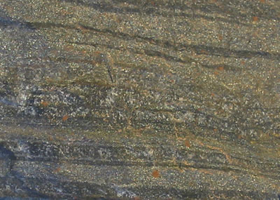 Dark layers consist of iron minerals and light layers consist of quartzite.